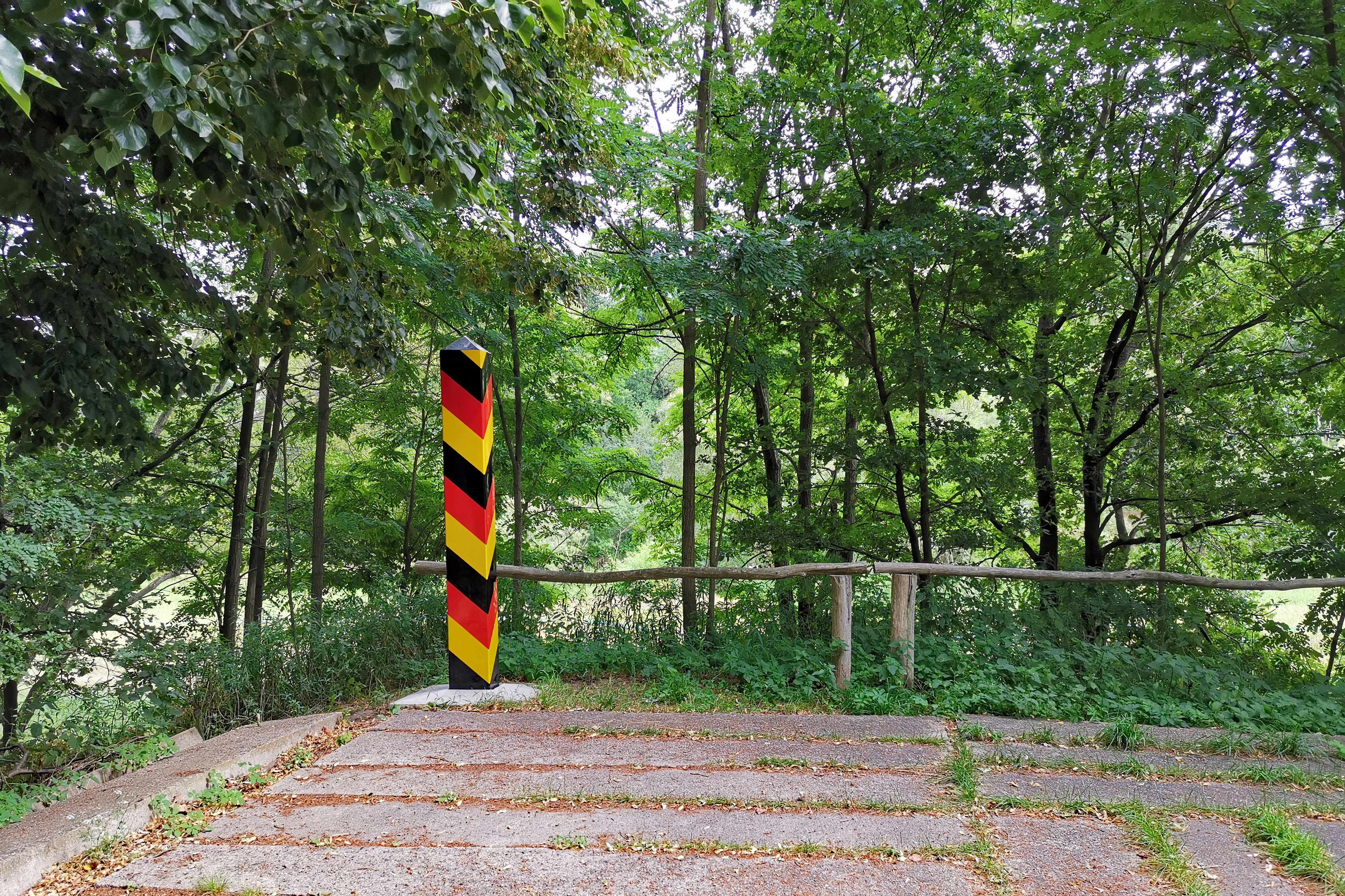 Pusack (Neiße-Malxetal, Brandenburg, Germany)